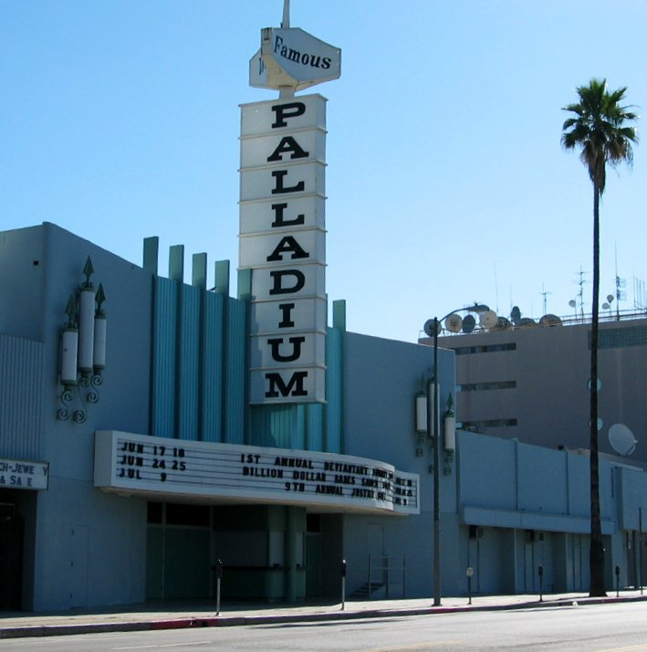 The Hollywood Palladium while hosting the deviantART Summit. Released under Creative Commons by Share Alike 2.0 on June 25th, 2005.